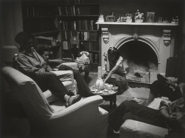 Art patrons John Reed and Sunday Reed, artist Sidney Nolan and others gathered in the library at Heide, 1942